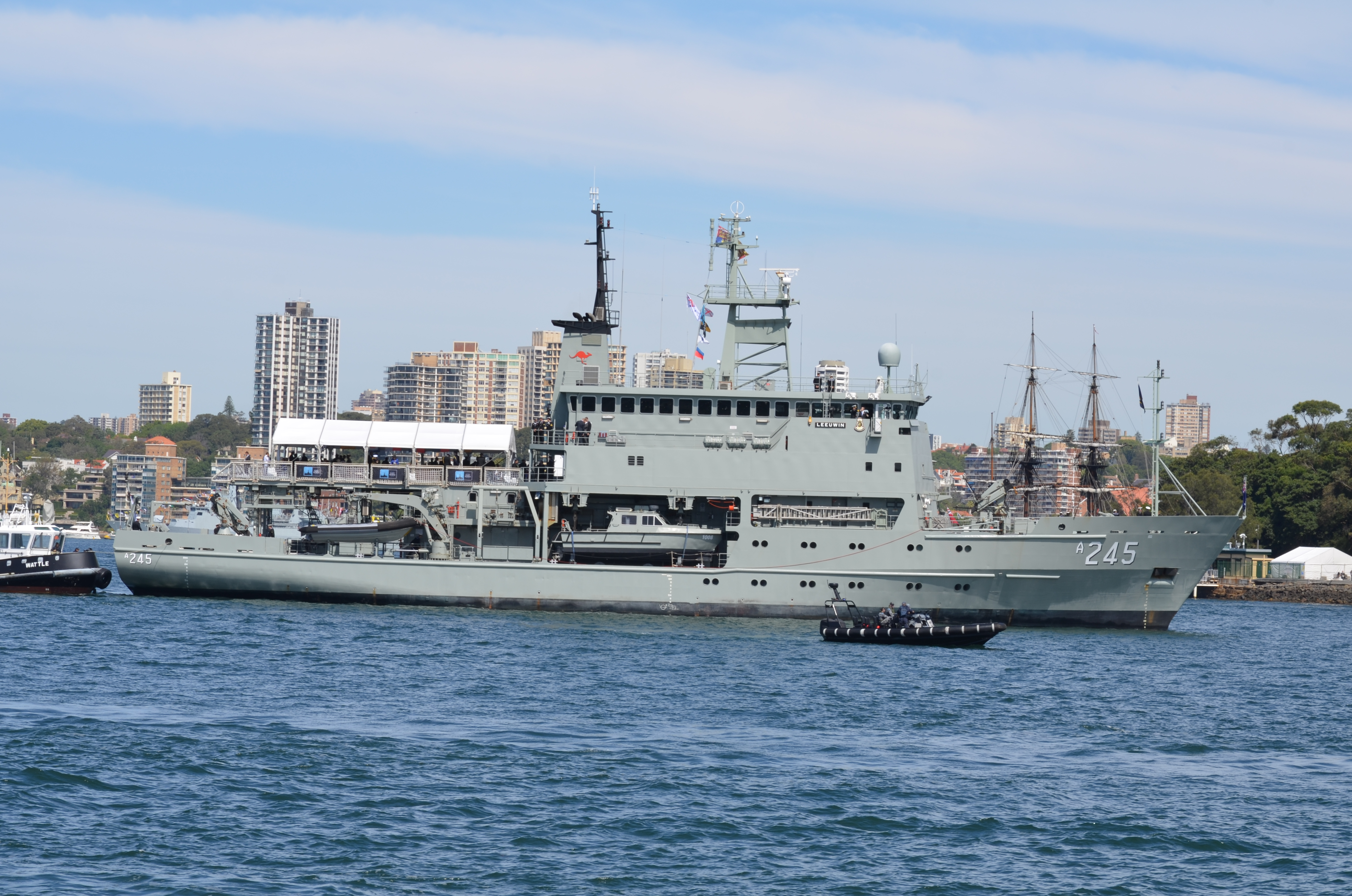 Photographs taken during day 3 of the Royal Australian Navy International Fleet Review 2013. HMAS Leeuwin, underway while reviewing the fleet.